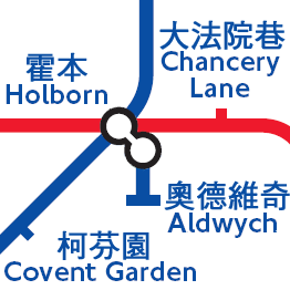 (Taiwan version) How the Aldwych tube station may have looked on the London Underground Map if it was still open to passengers. (Image based on London Underground Map, created by User:McDRye on Feb 26th, 2006) Category: Disused London Underground station maps